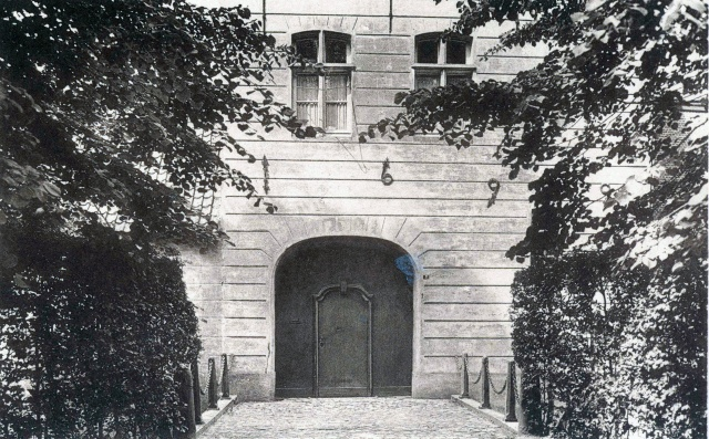 Foto genomen te Essen Essendonk 3 en ons bezorgd door Smout Rudi --- Postkaart toegangspoort Oude Pastorij. Vanaf 21 mei, en dit drie weken lang, vindt in het kader van Essen-850 nabij de Oude Pastorij het kunstenaarssymposium plaats. Elke dag van 10 tot 20u kan je er een kijkje gaan nemen, of nog beter, er fotootjes van maken en opladen op Essen in beeld. In 1900 kocht notaris Van den Velden uit Antwerpen het domein. De oudere gedeelten, zoals de woonvertrekken met verdieping aan de westzijde, de kapel en het boerenkwartier werden met de grond gelijk gemaakt. Deze notaris behield slechts de noordelijke vleugel, het torentje (pas gerestaureerd!, te zien op deze site)en het poortgebouw. De toegangspoort zag er wel heel anders uit dan nu. --- Eigendom van Essen in Beeld (Stichting Heidebloempje, Heemkundige Kring, Cultuurraad).